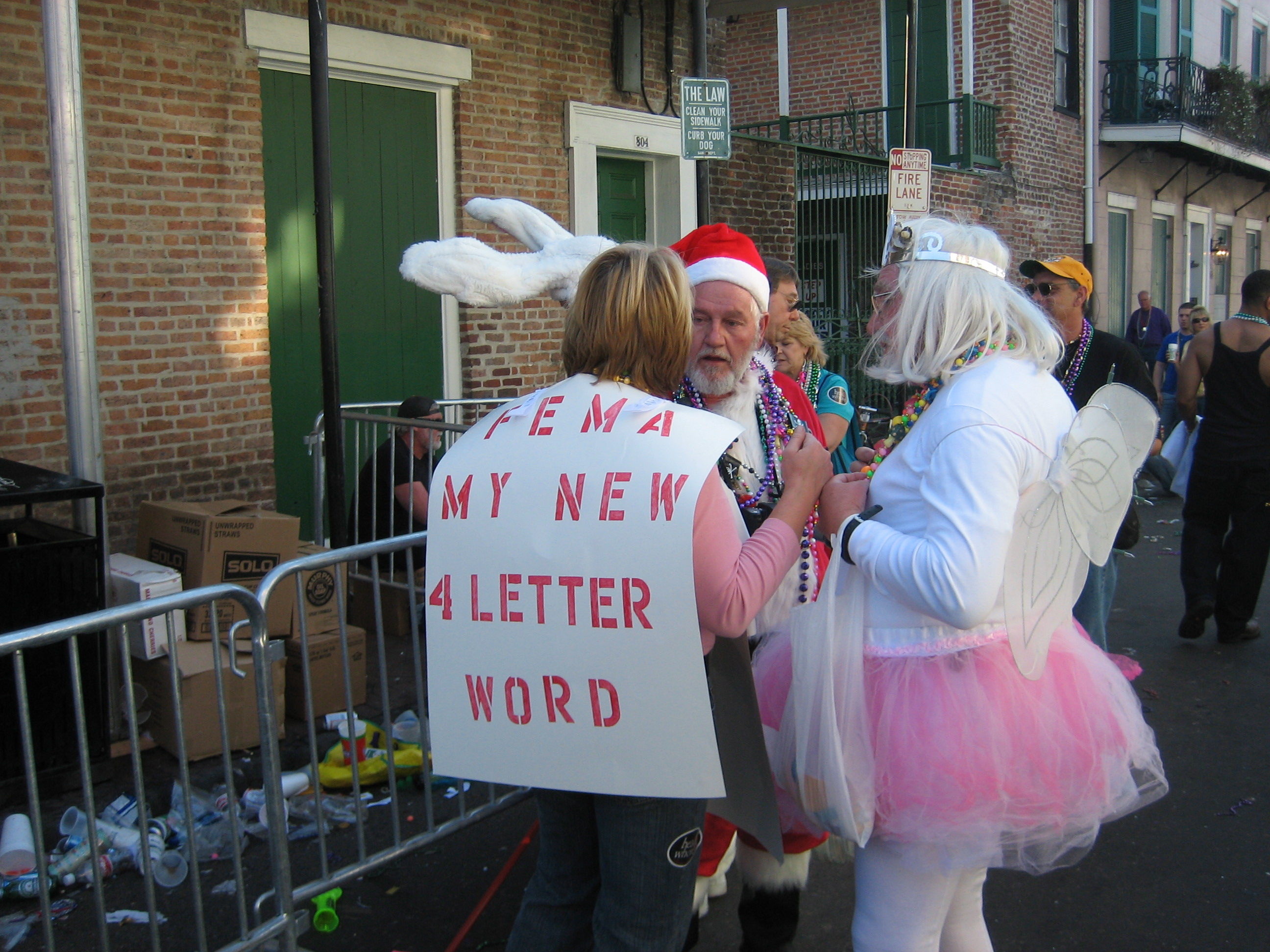 Revelers, French Quarter New Orleans, Mardi Gras Day, 2006. One costumer has sign distainful of FEMA.